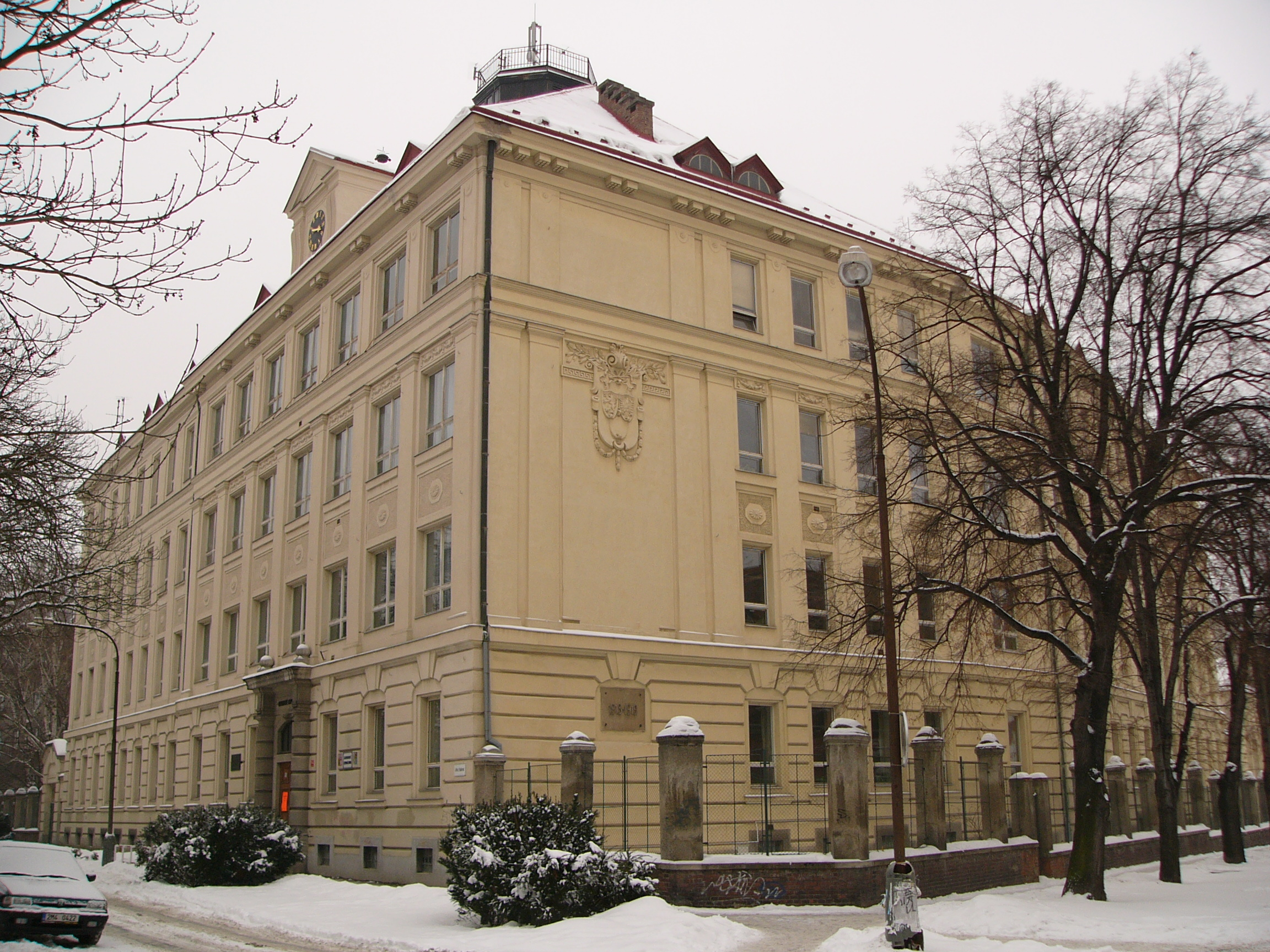 Grammar school Slovanské gymnázium in Olomouc (Czech Republic).